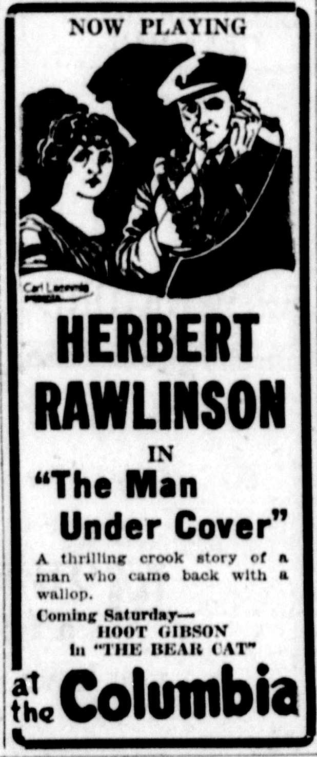 Man Under Cover is a 1922 American crime film directed by Tod Browning. Newspaper advert for the film.